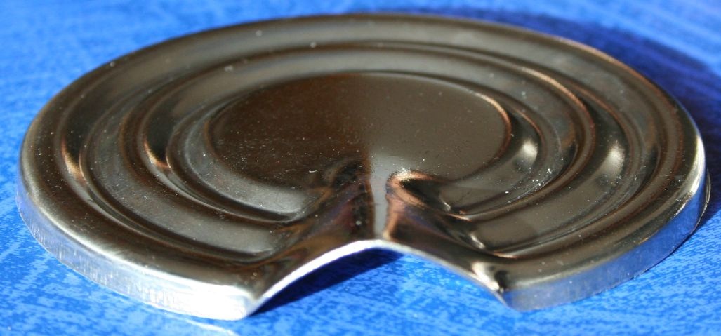 A gadget attached to a pot in which milk is boiled and which gives a signal when the milk is too hot and can be overcooked. Made from steel.